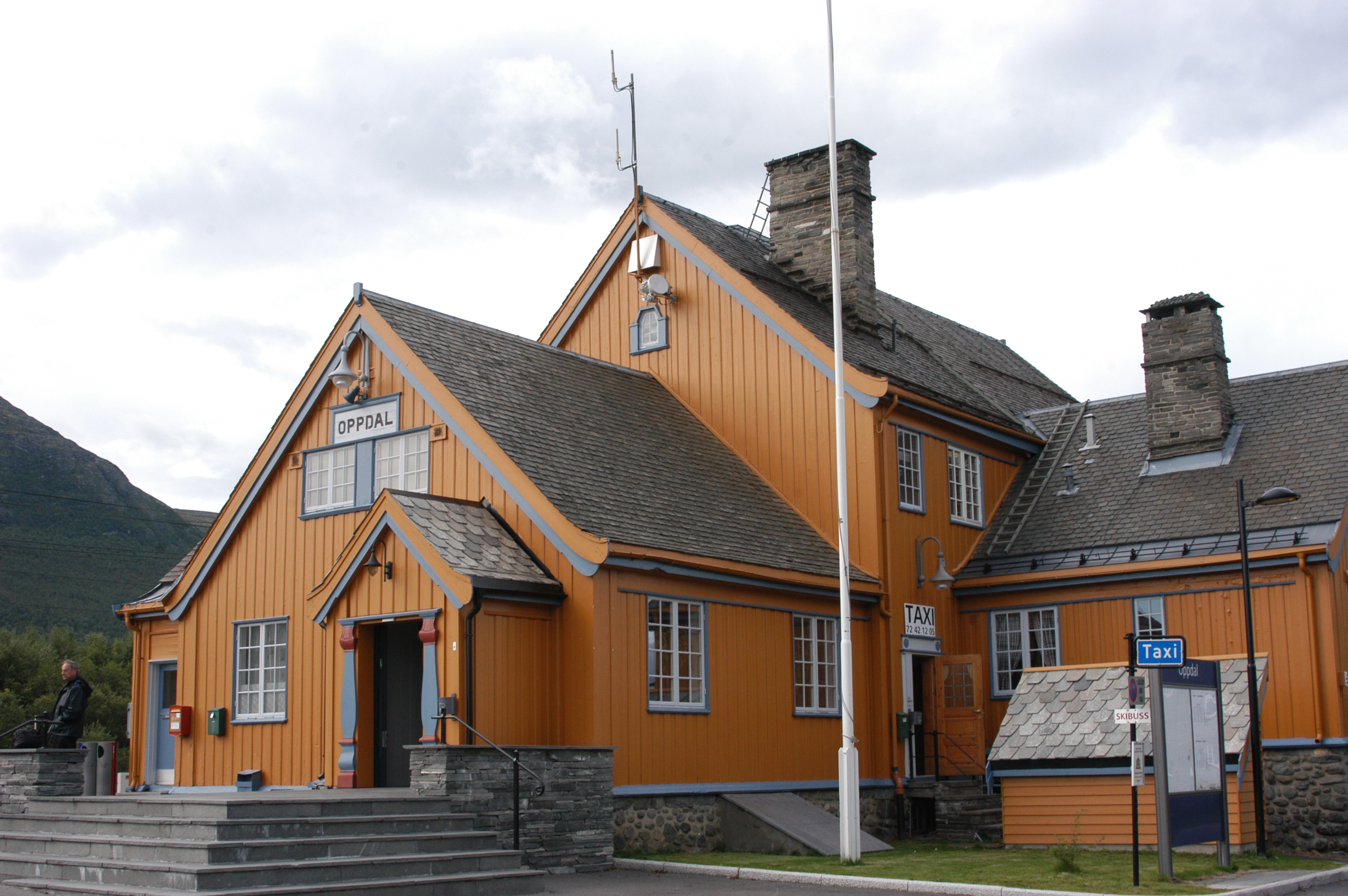 Oppdal train station